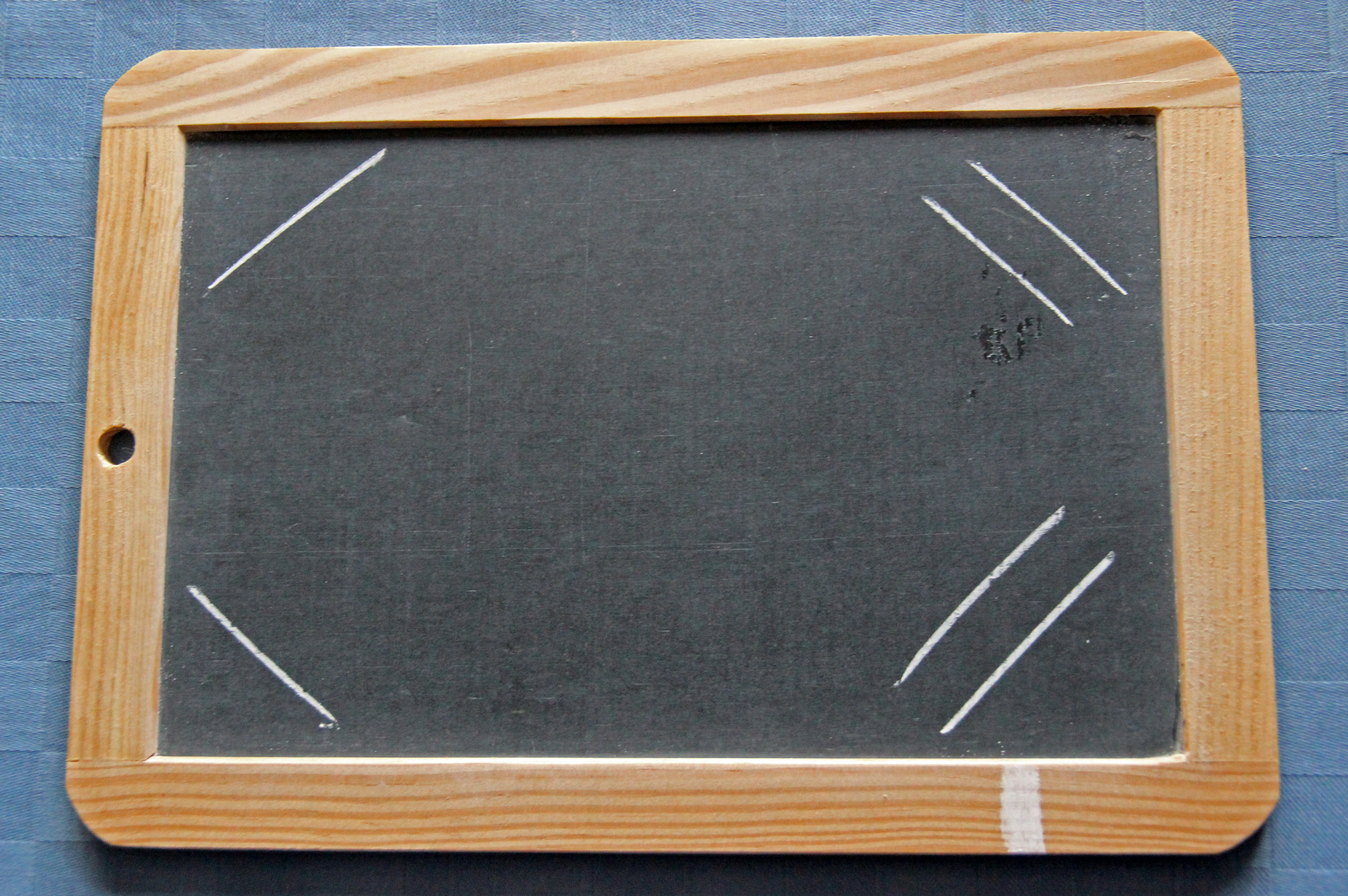 A scoring slate being used for the German card game of Hintersche